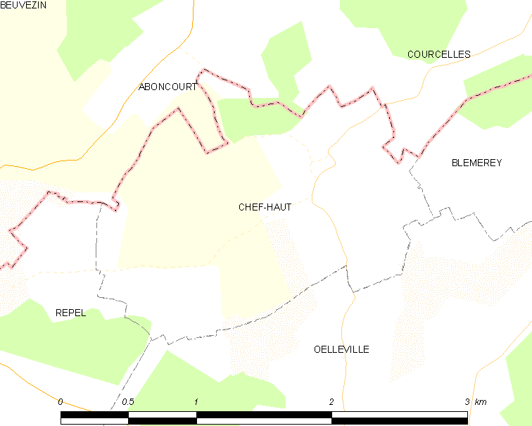 Map of French municipality Chef-Haut